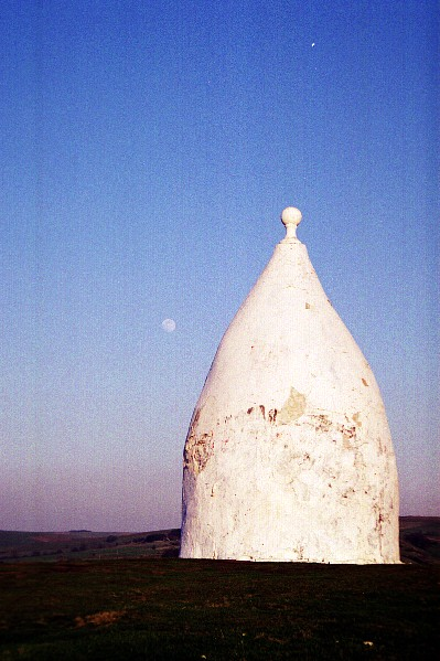 This is a photograph of White Nancy taken by Walter Menzies. No Copyright applies